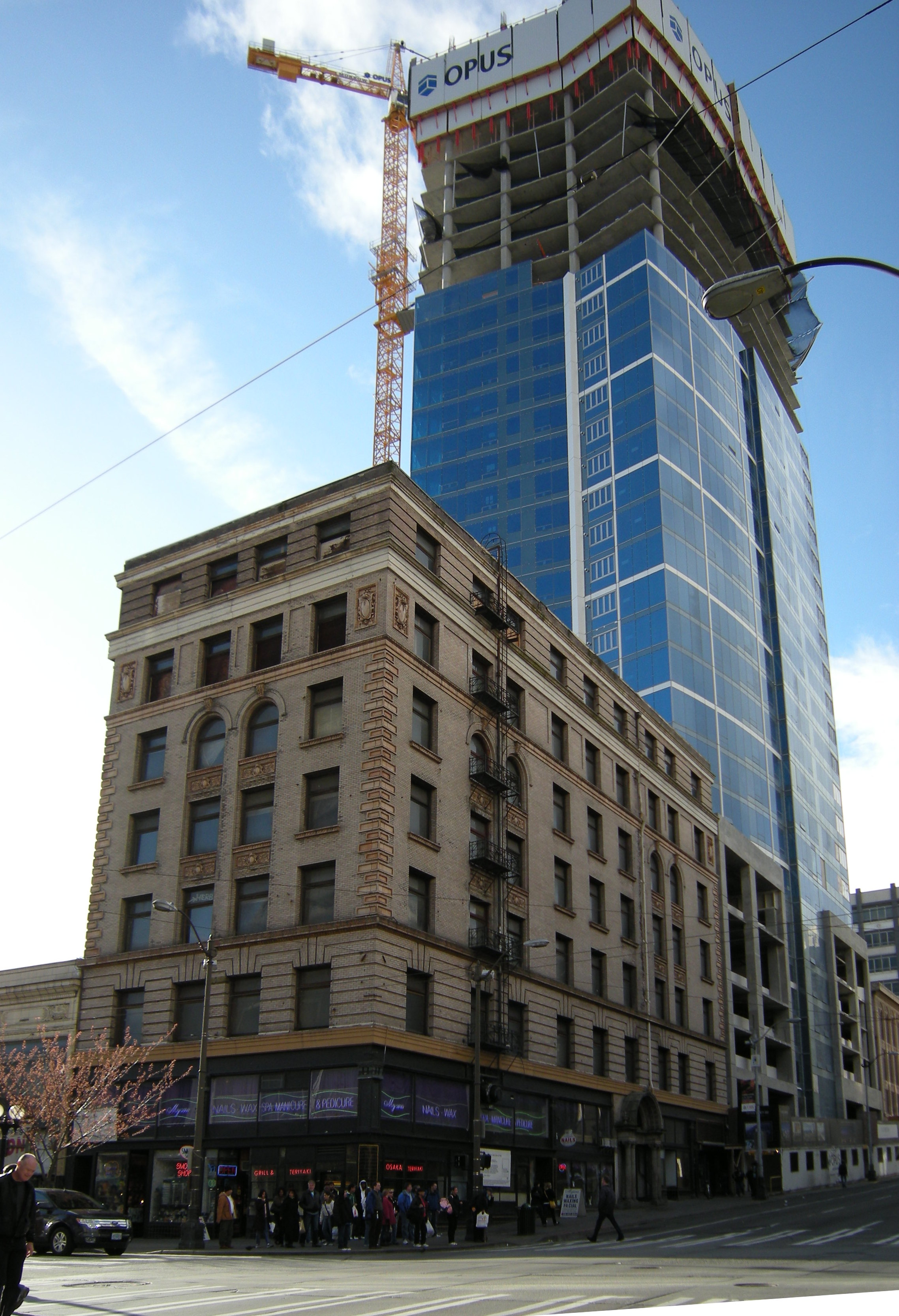 The Eitel Building, 1501 Second Ave., Seattle, Washington. The building has city landmark status. Judging by the land use action signs, all or part of it is about to be incorporated into a taller tower building